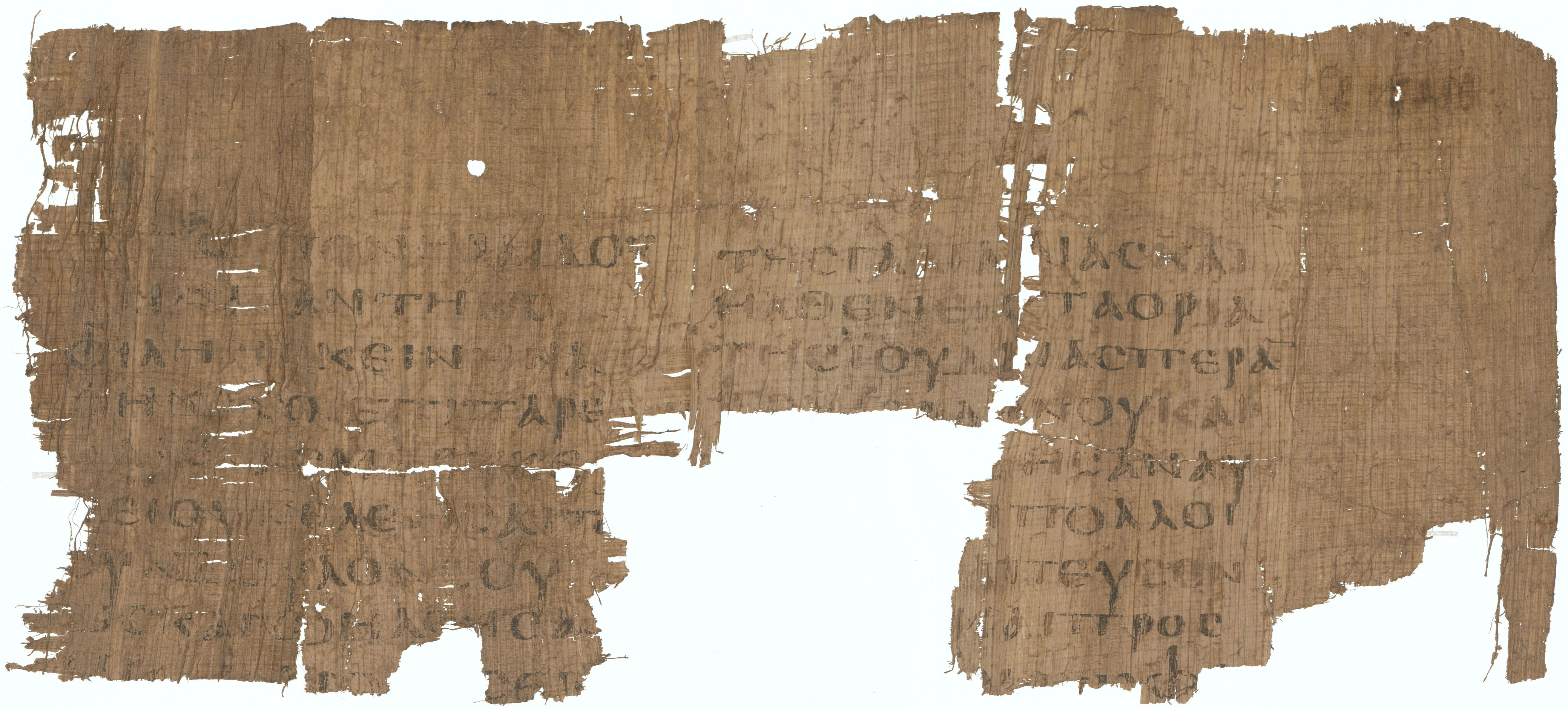 Papyrus 25 - Staatliche Museen zu Berlin inv. 16388 - Gospel of Matthew 18:32-34 19:1-3.5-7.9-10 - recto